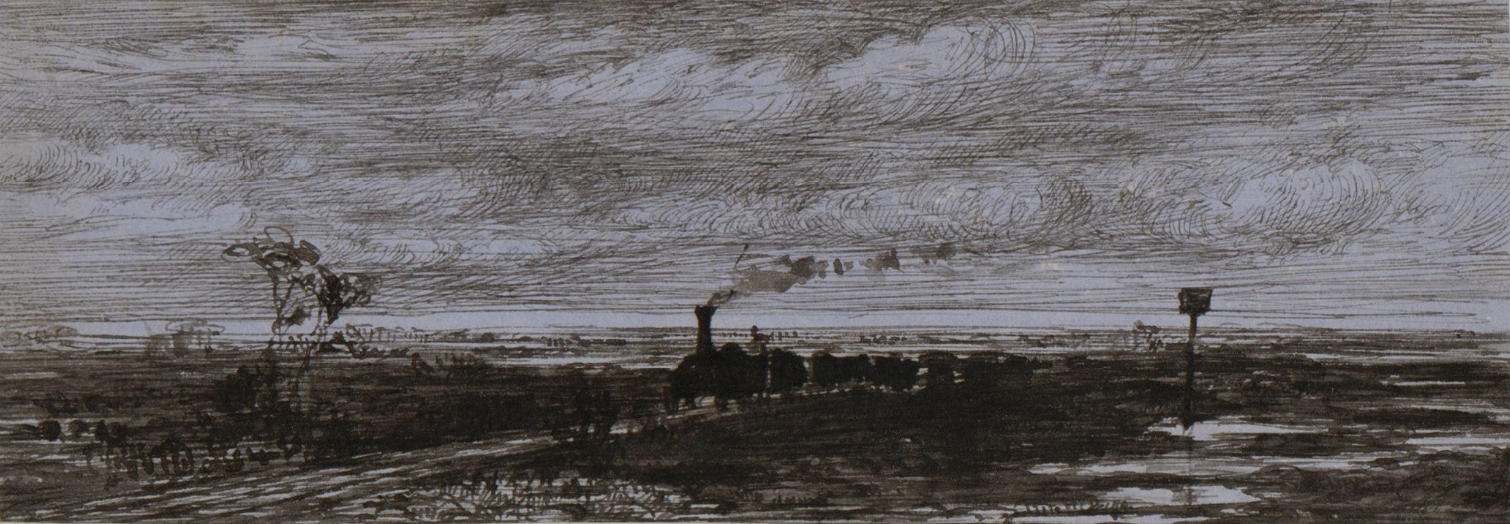 Examples of artwork on a variety of subjects and in a variety of styles by Francis Elizabeth Wynne from a sketchbook (ca. 420 drawings): mixed media, including watercolour, wash and, pen and ink.